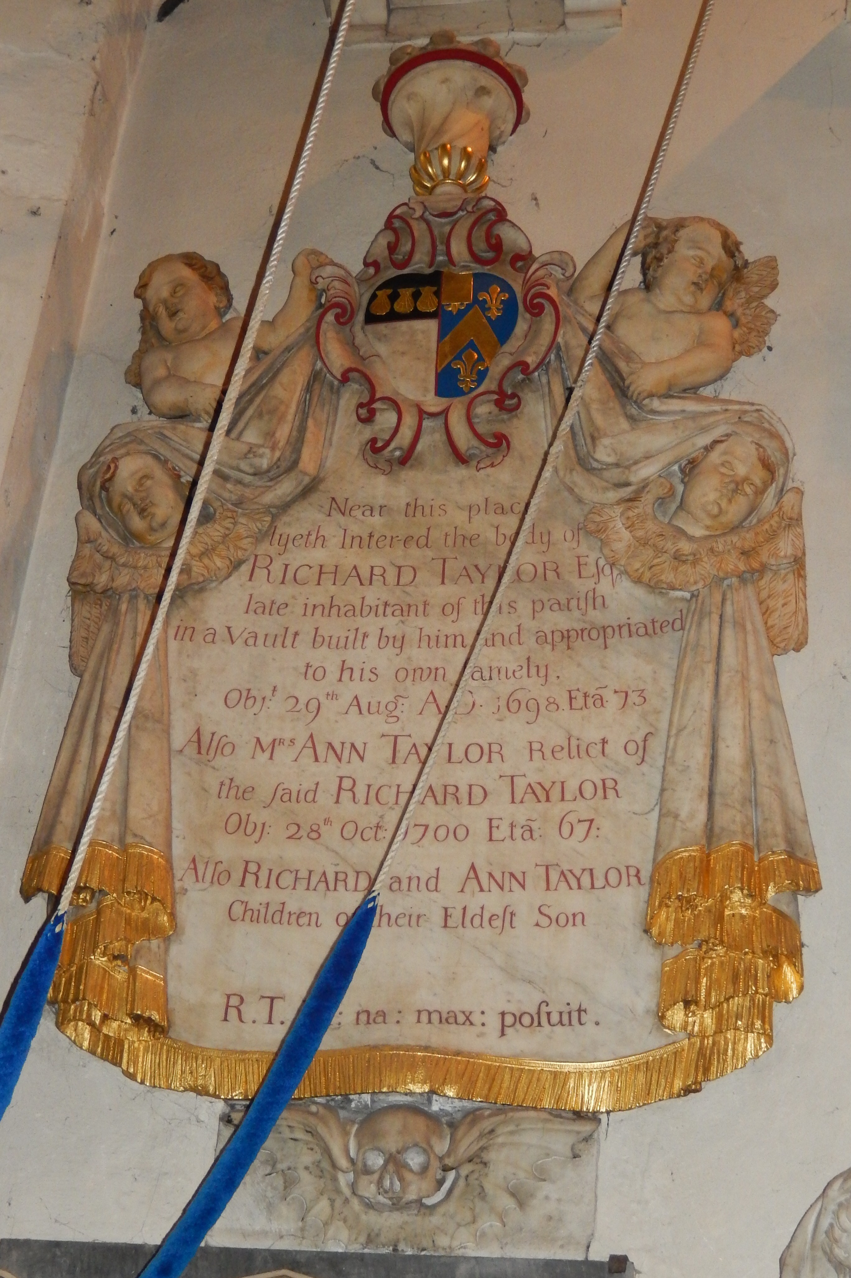 Richard Taylor memorial St Nicholas Chiswick 1698